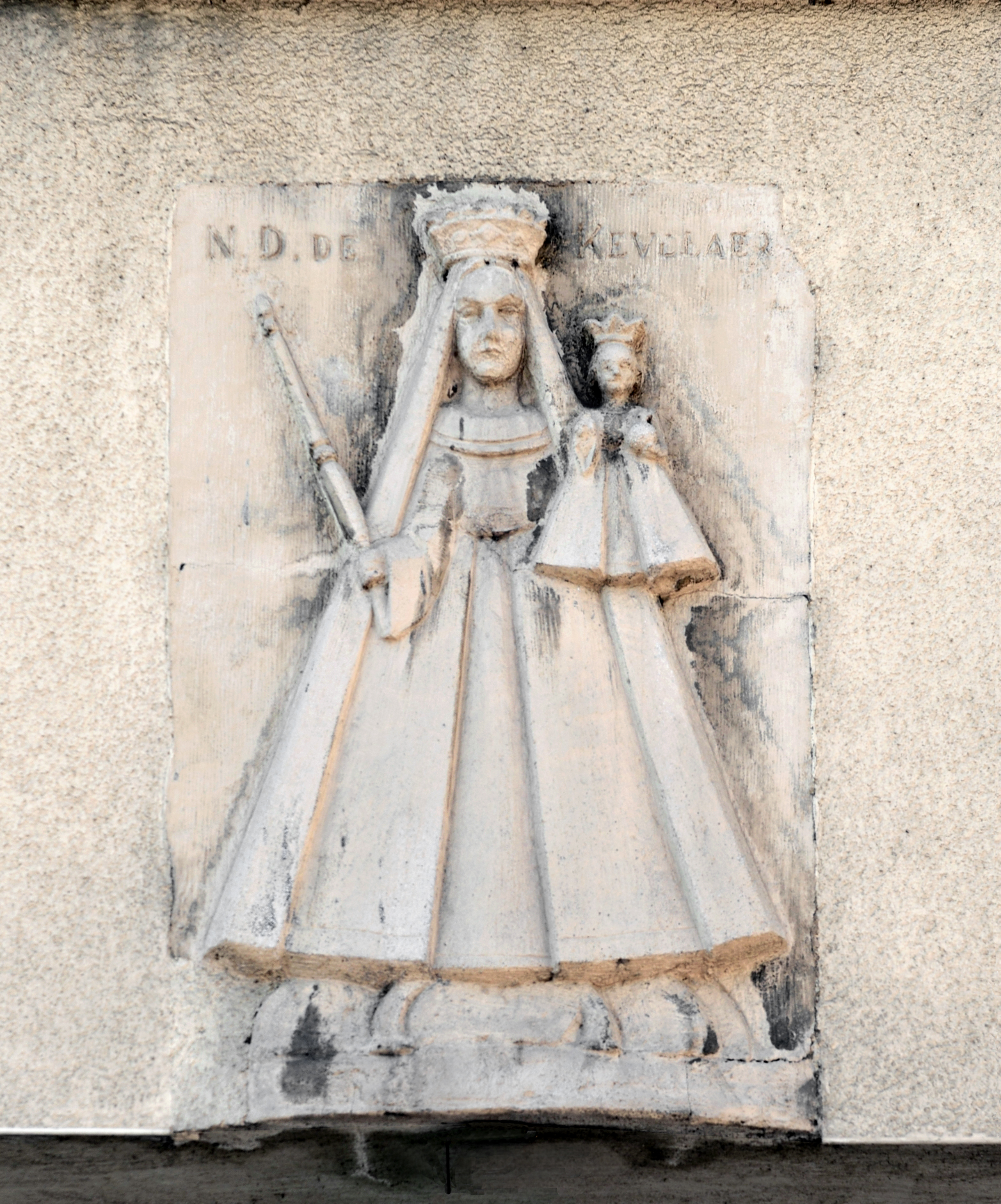 Luxembourg City: relief of Our Lady of Kevelaer on the facade of a building, 68 rue de Strasbourg.